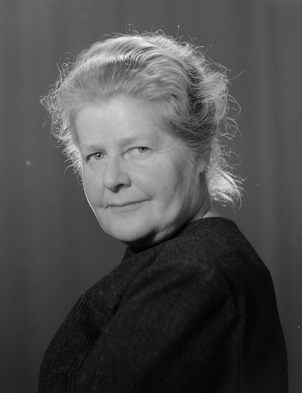 Hildegard Jäckel, German photographer.